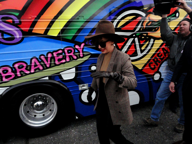 Lady Gaga presenting the bon brave bus in Europe.